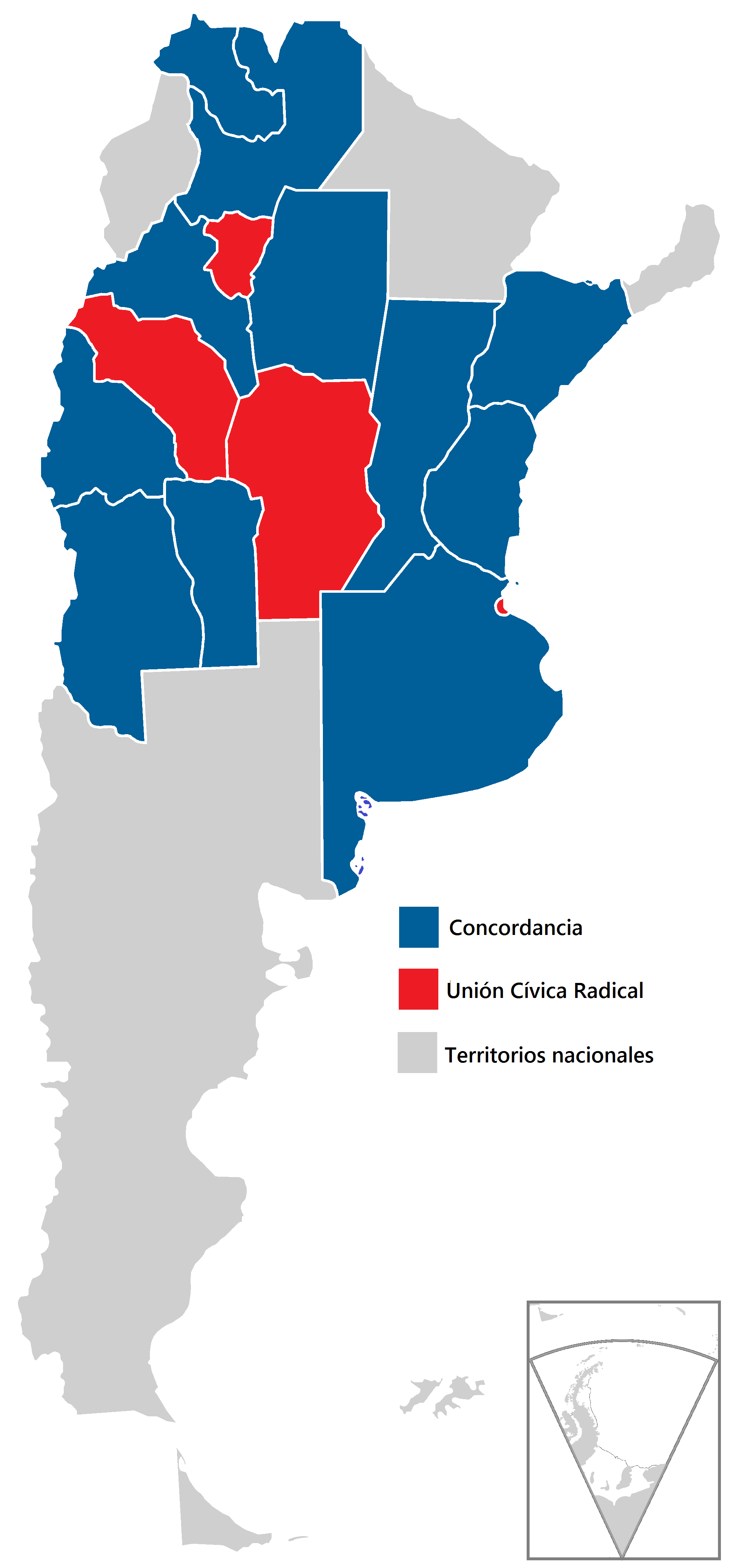 Mapa de las elecciones presidenciales de Argentina de 1937